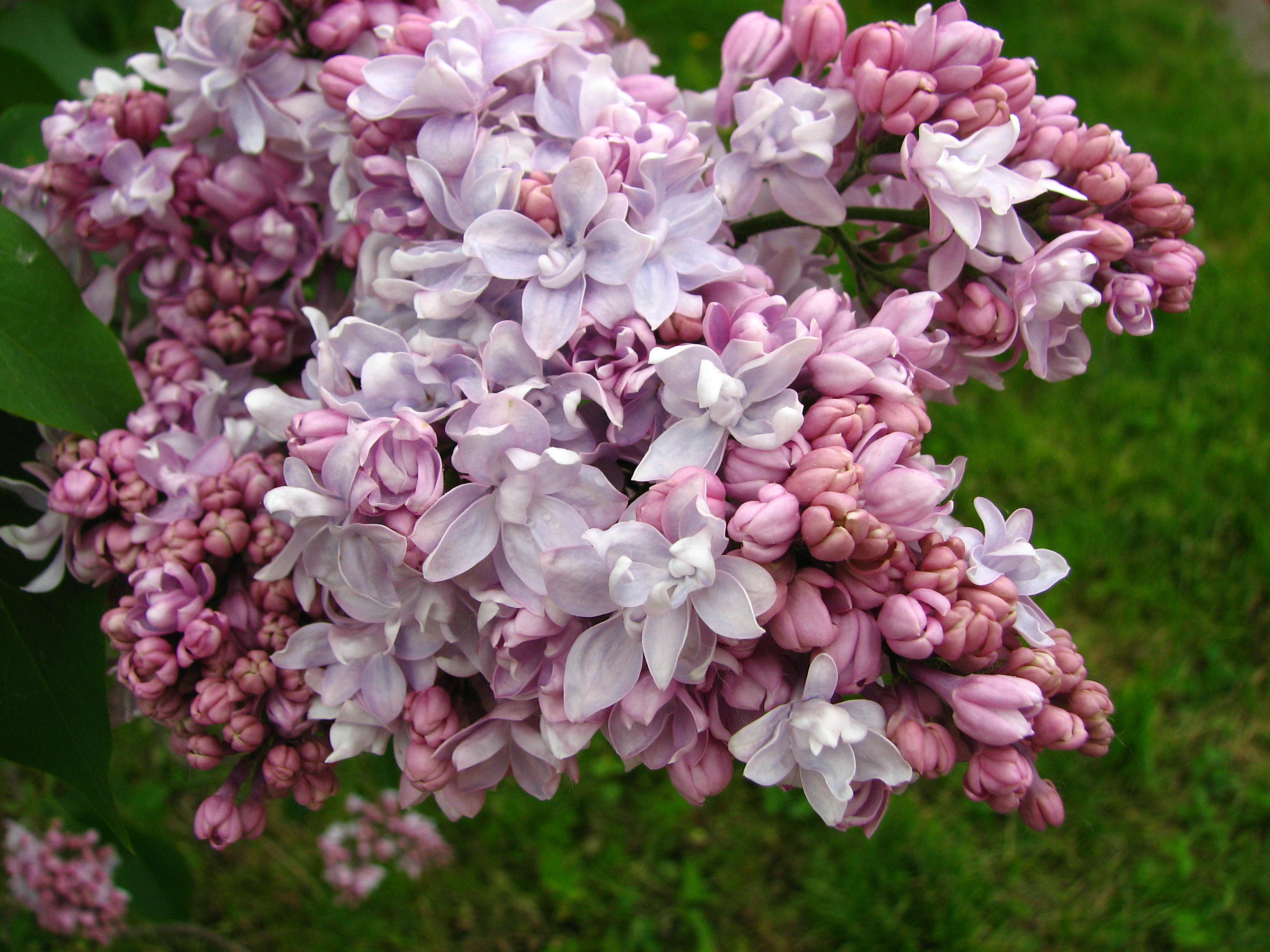 Syringa vulgaris 'Marshal Vasilevskiy'. Originator: Kolesnikov, 1963. From the collection of the Botanical Garden of Moscow State University (main area on the Sparrow Hills).